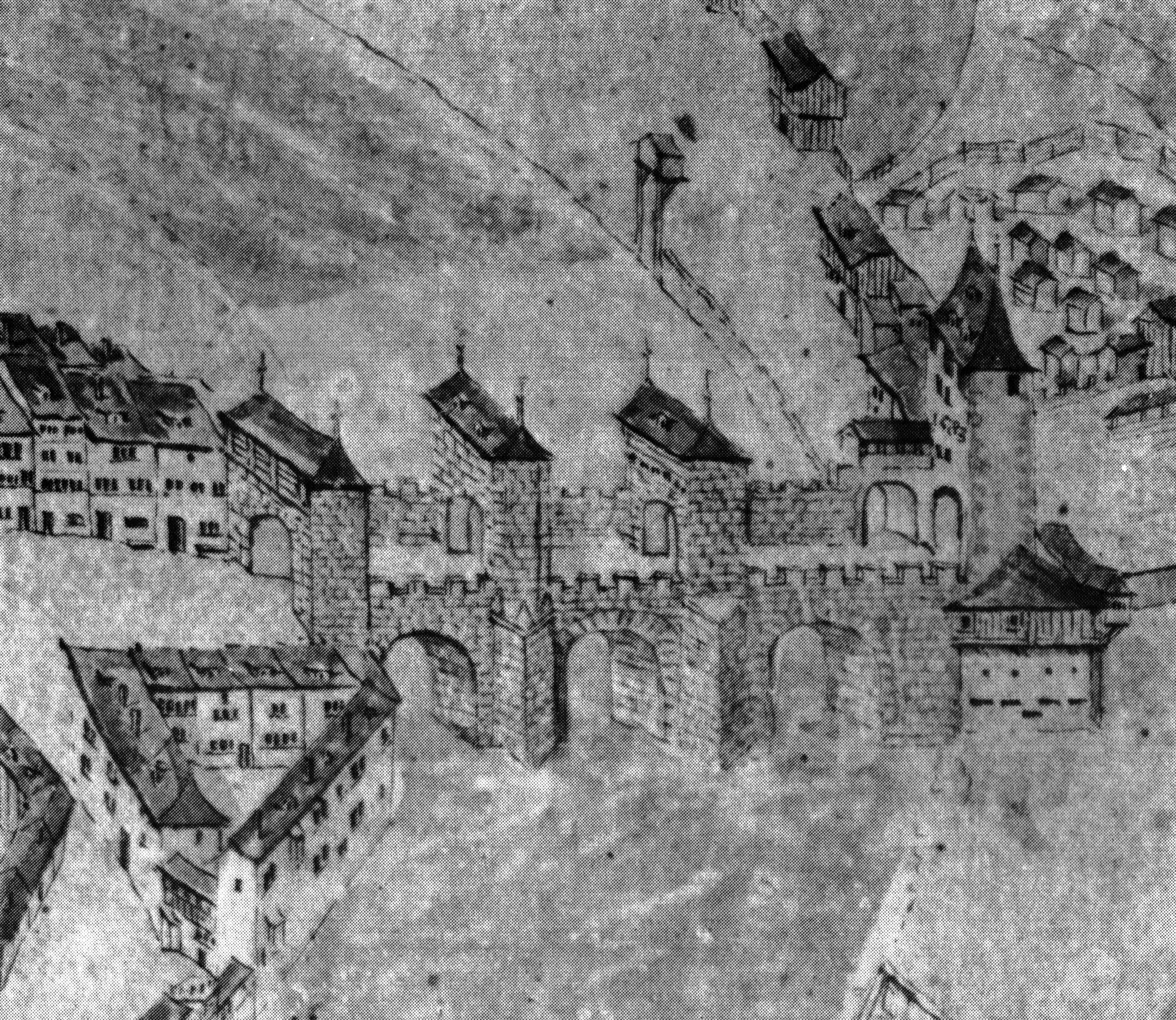 The Untertorbrücke in Berne, Switzerland as depicted on a 1600 map by Gregorius Sickinger.